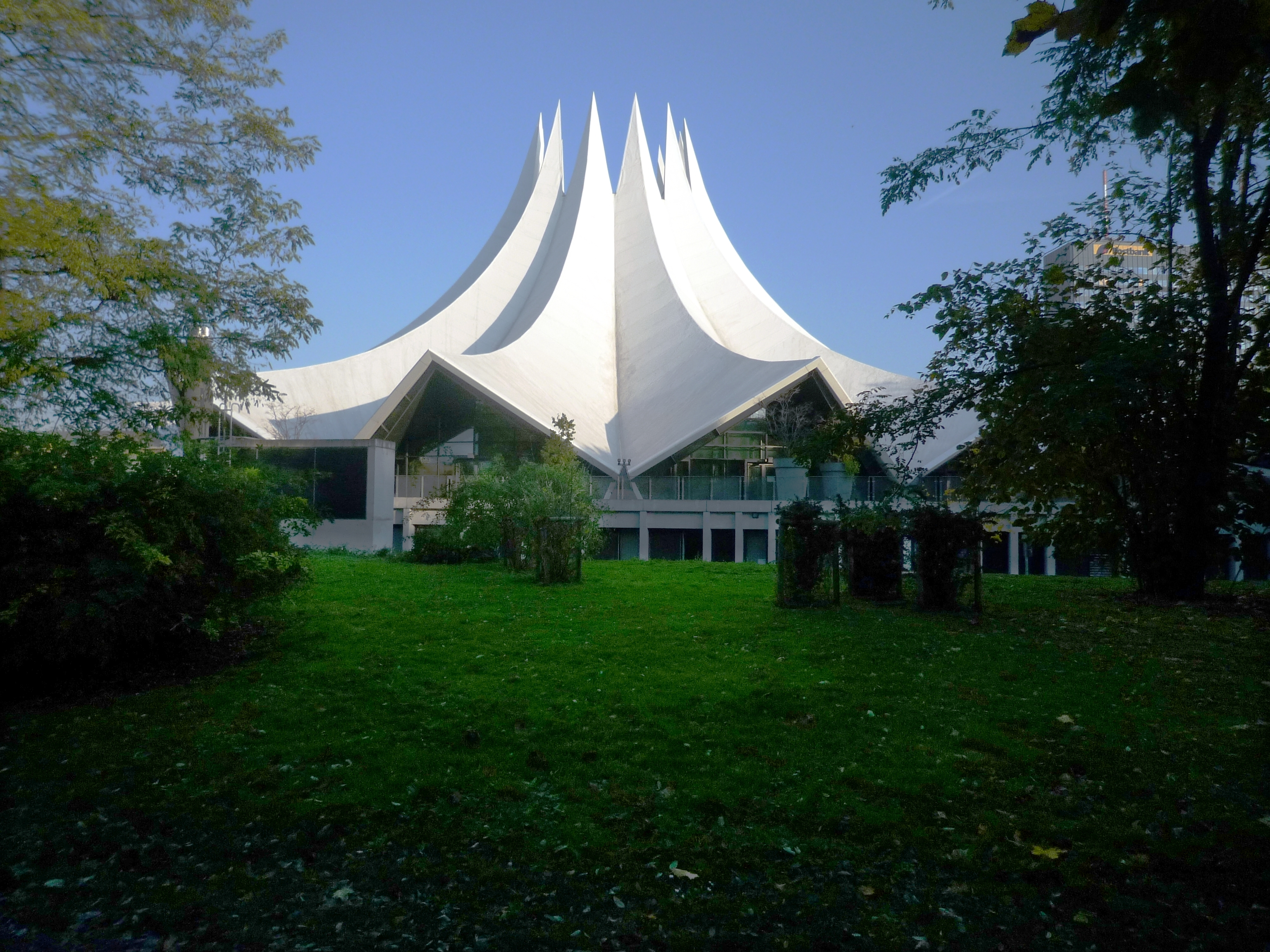 The Tempodrom, an event- and concert-location in Berlin (Germany). View from west.